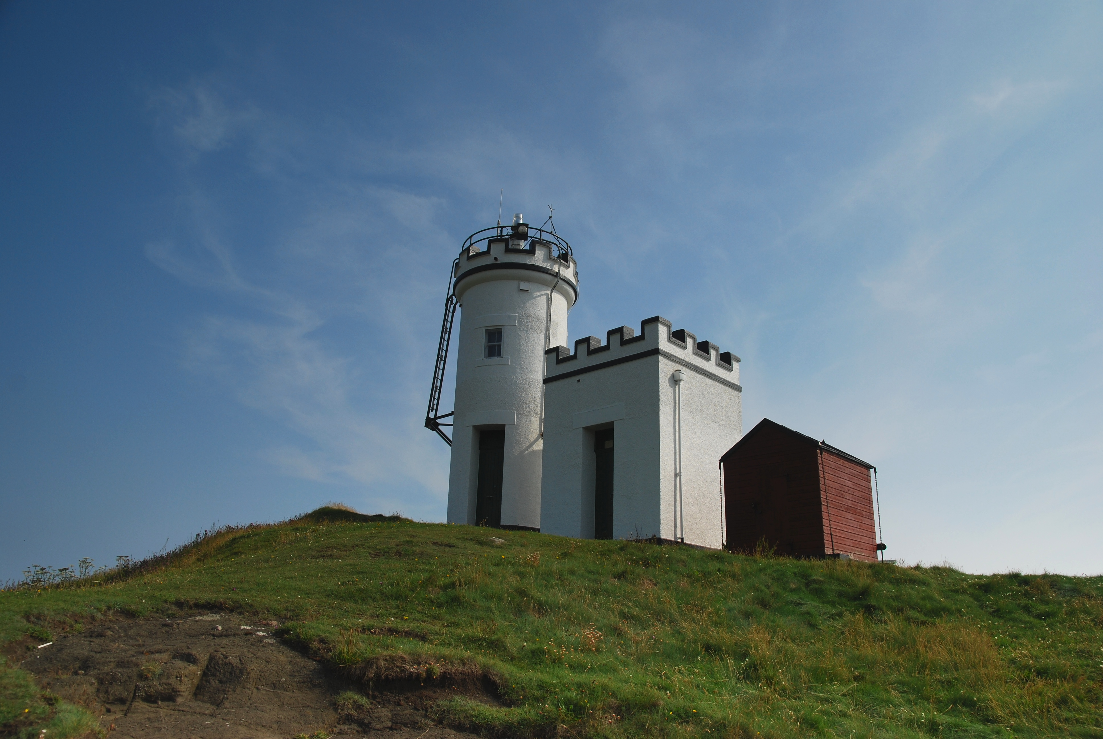 Elie Lighthouse in East Neuk, Fife.